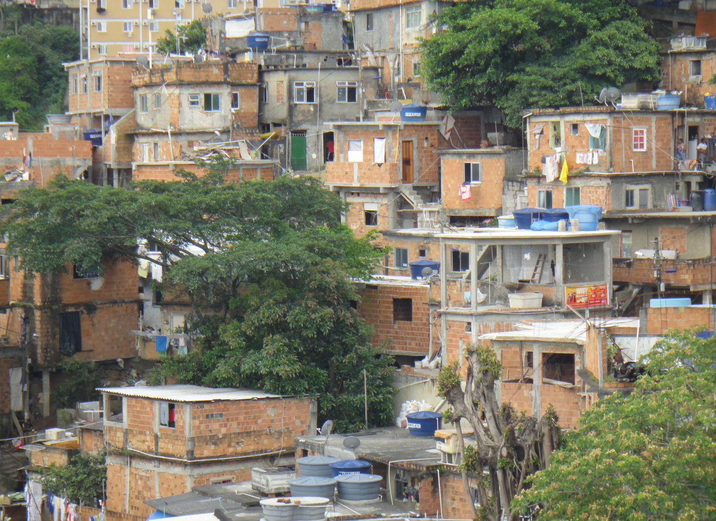 Cantagalo slum, next to Pavão/Pavãozinho slum, in Rio de Janeiro south zone, Ipanema